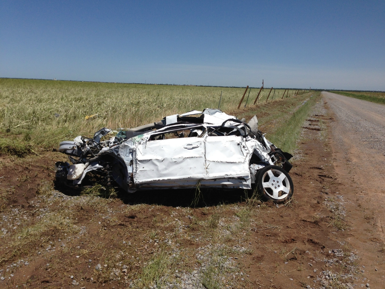 This photo shows a heavily damaged white Chevy Cobalt near the intersection of Reuter Road and S. Radio Road, or 4.8 miles southeast of El Reno, OK. Three storm chasers were killed when this vehicle was hit by one of sub-vortices within the larger circulation of the "El Reno" tornado.